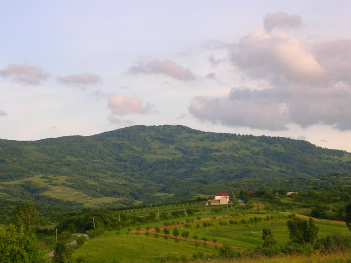 Măgura Priei Peak from Meseş Mountains, Sălaj County, Romania